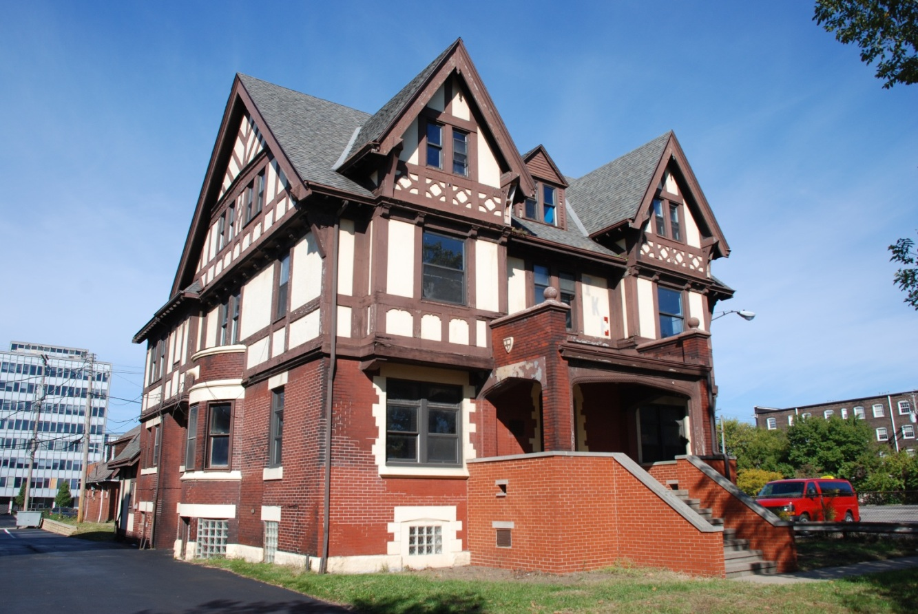 The Dr. William Gifford House on Prospect Avenue in Cleveland, Ohio